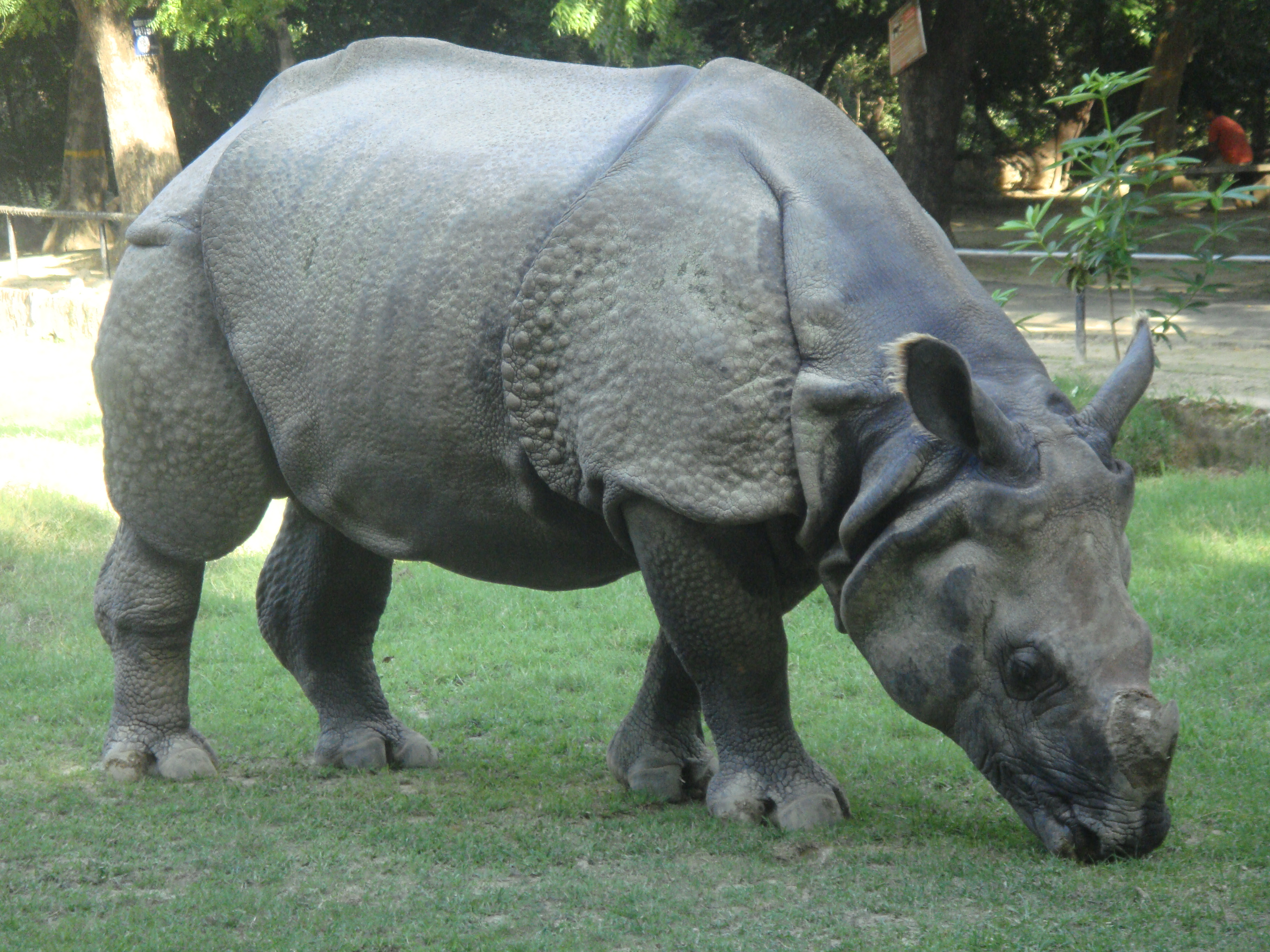 kanpur zoo photos-rhinoceros-1